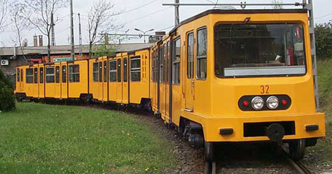 Reconstructed underground train on the Millennium Underground Line